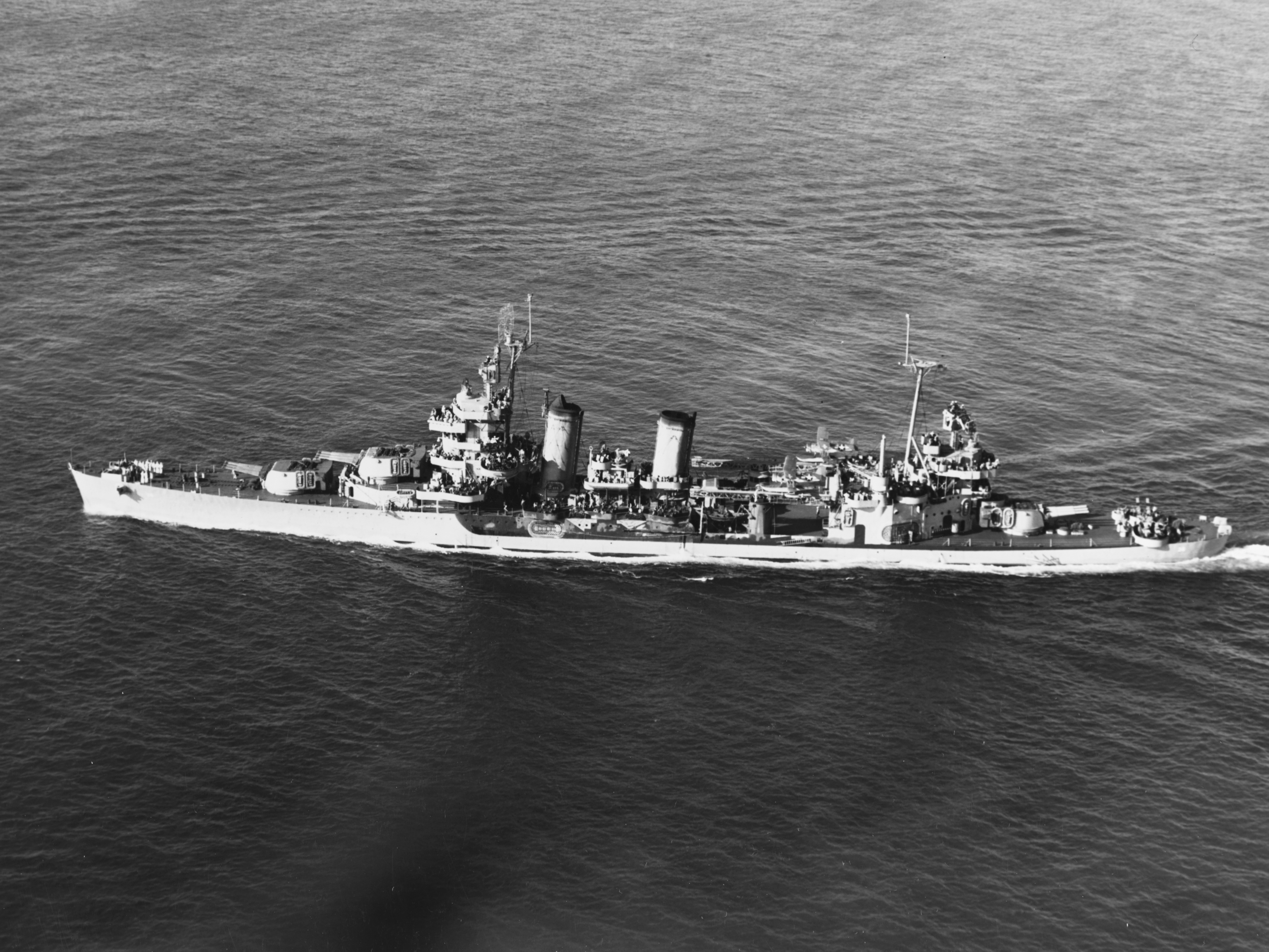 The U.S. Navy heavy cruiser USS Minneapolis (CA-36) underway on 9 November 1943. Note her unique camouflage scheme, with the cruiser painted to resemble a destroyer.